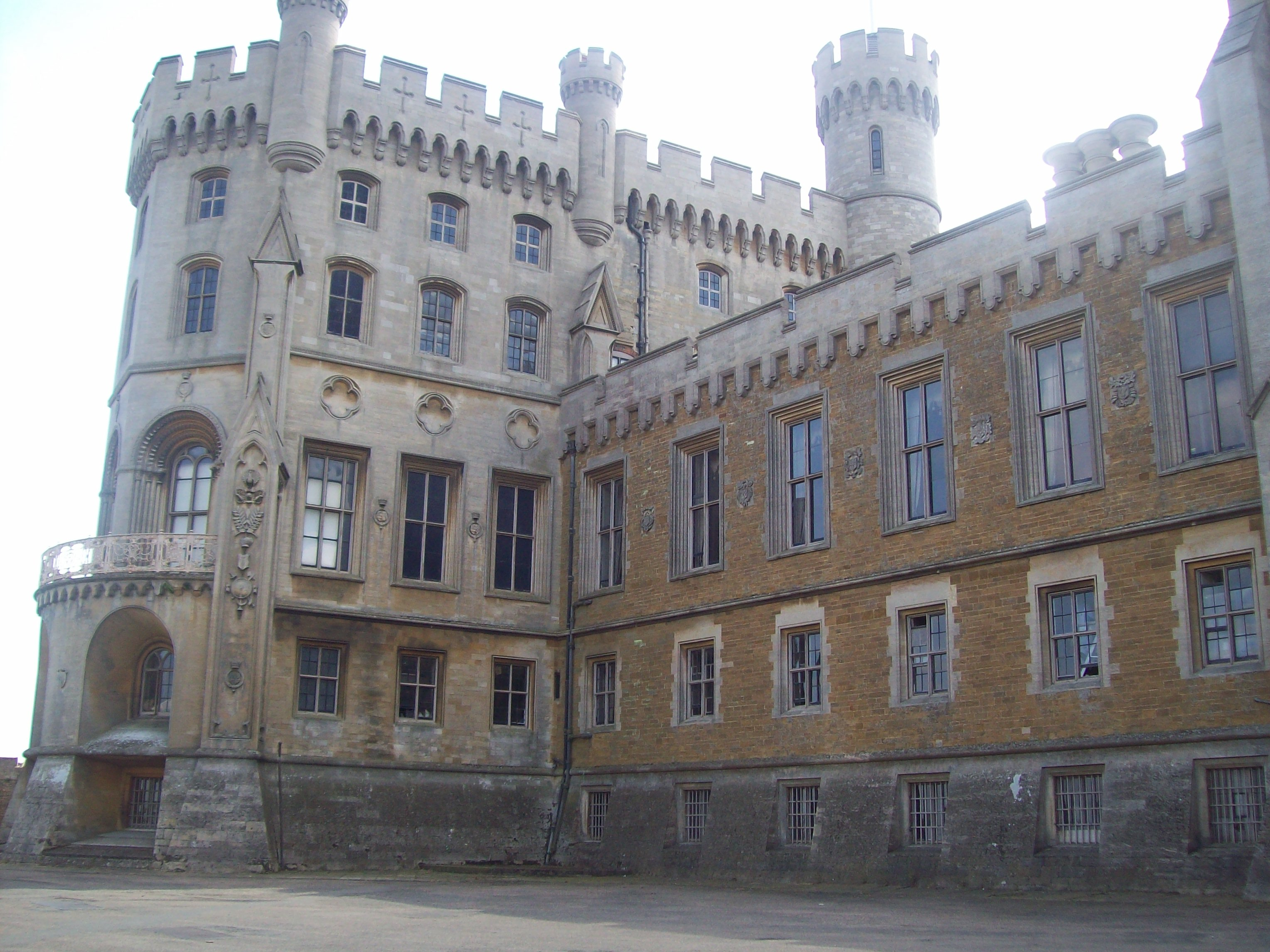 Belvoir Castle in England.